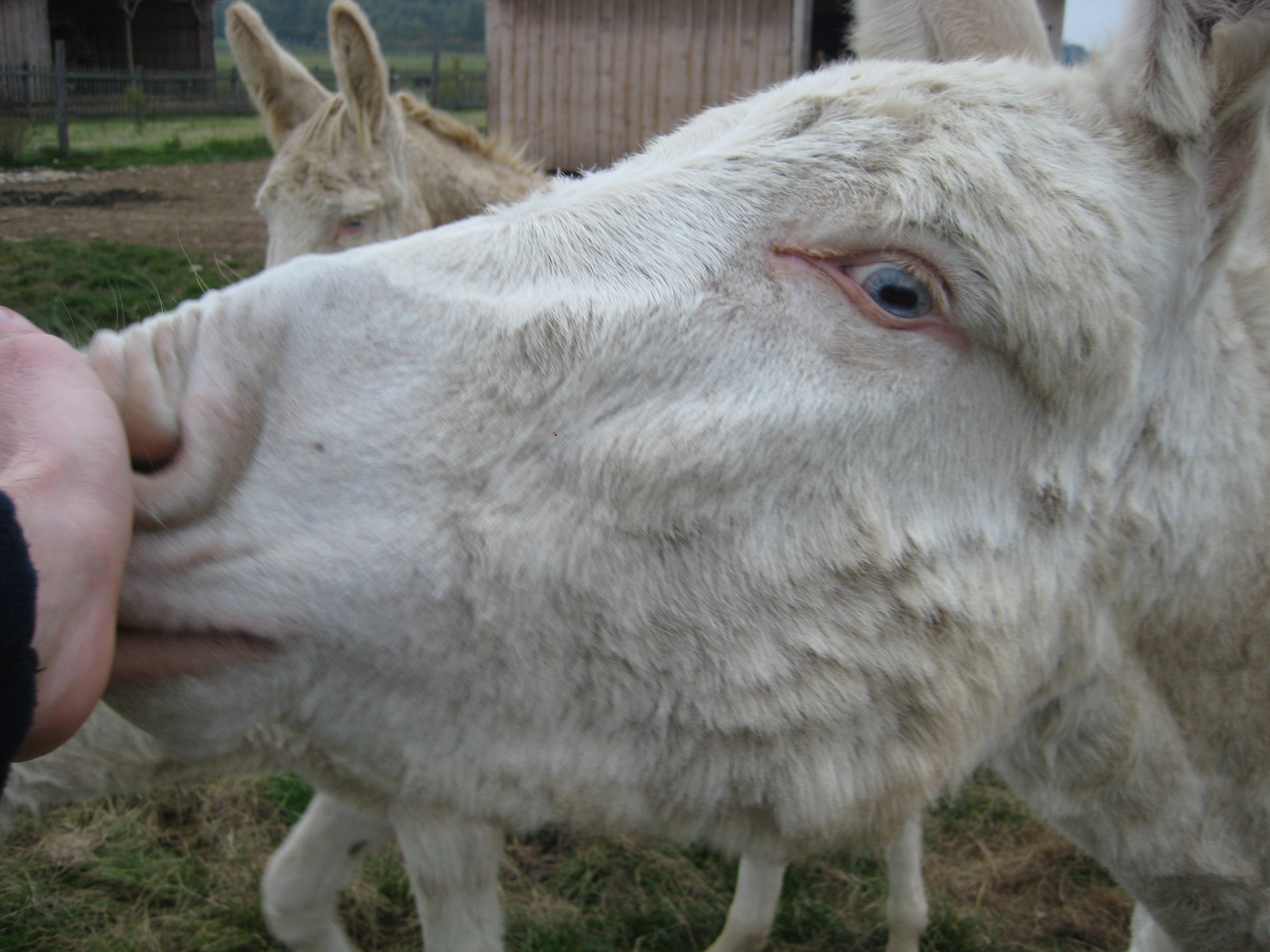 Close view of face from a Austrian-Hungarian white donkey. clearly to see the blue eyes